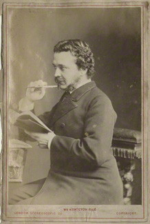 (Charles) Hamilton Aidé by London Stereoscopic & Photographic Company albumen cabinet card, 1870s